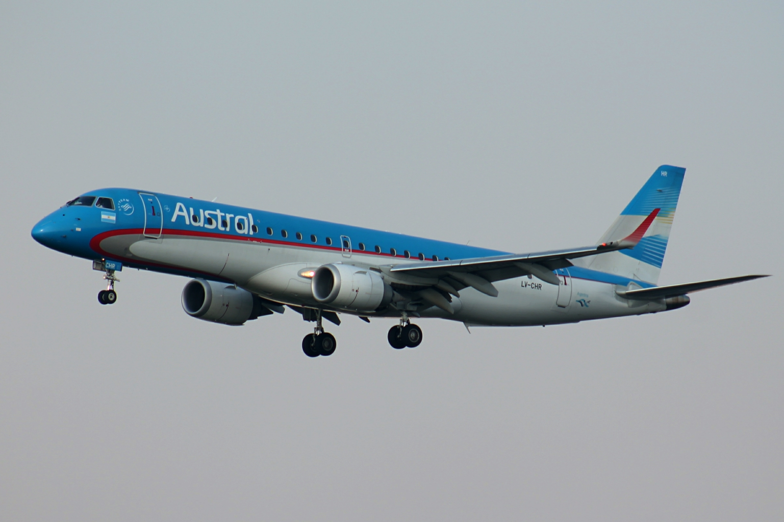 IMG_9217_Fotor